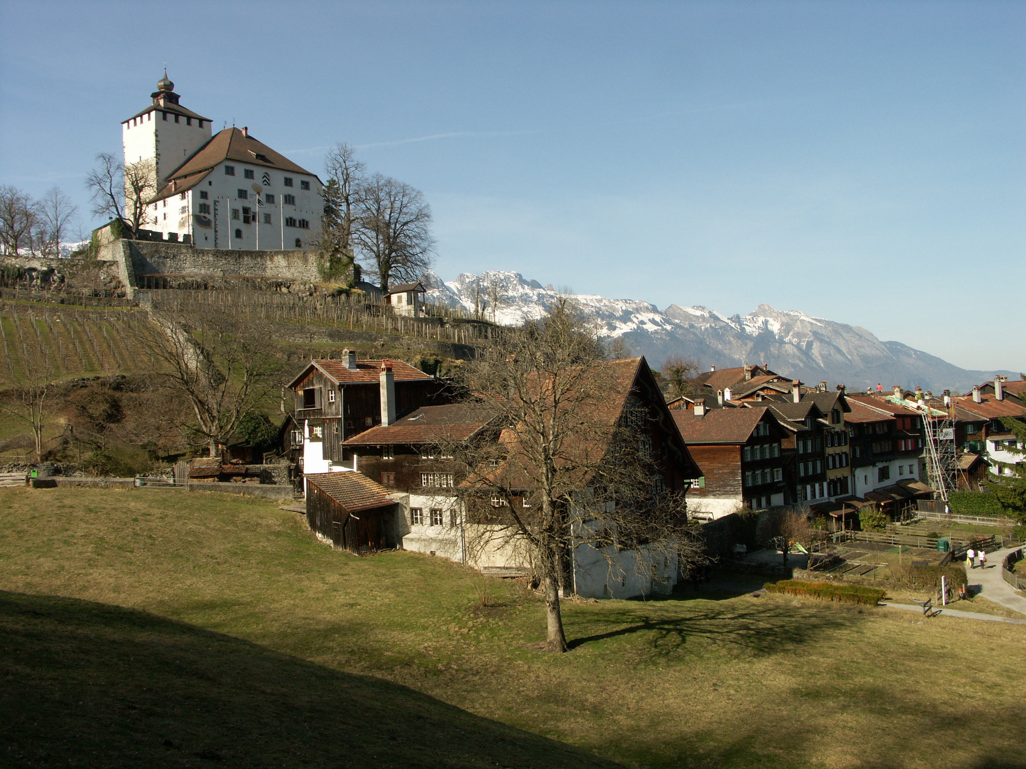 Werdenberg Castle